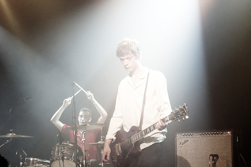 Dan Kjær nielsen og Johan Suurballe Wieth in Aarhus, Denmark 2016